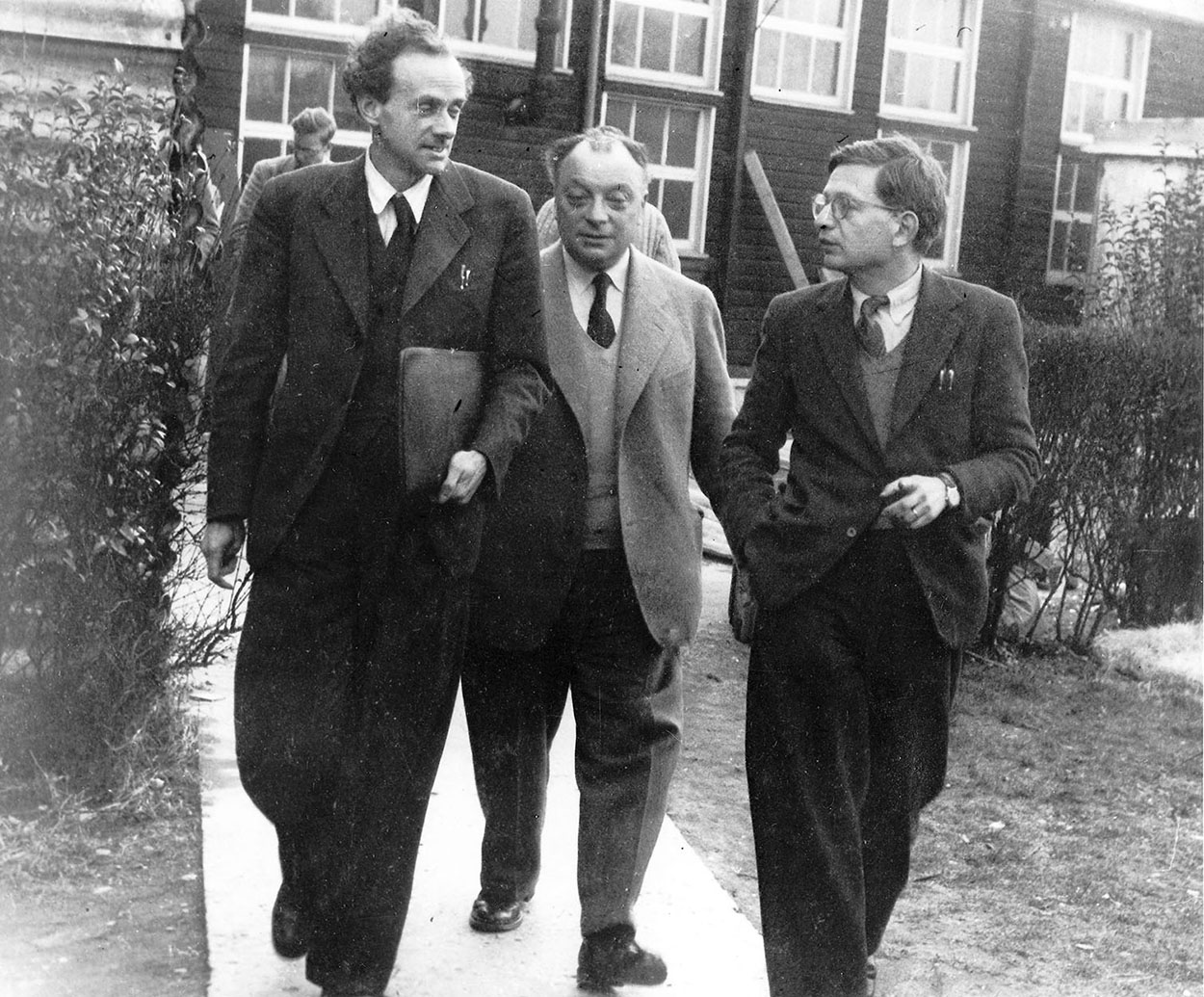 Shown here in Birmingham, Paul Dirac (1902-1984), Wolfgang Pauli (1900- 1958) and Rudolf Peierls (1907-1994) were three influential theoretical physicists in the 1940s and 1950s. Peierls was working at Birmingham University, England in the 1940s when he and Otto Frisch (1904-1979) suggested that only a kilo of uranium-235 was needed for it to be a powerful nuclear weapon. Birmingham University prepared uranium of high purity from this time onwards.